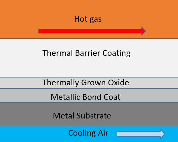 Graphic of a TBC structure